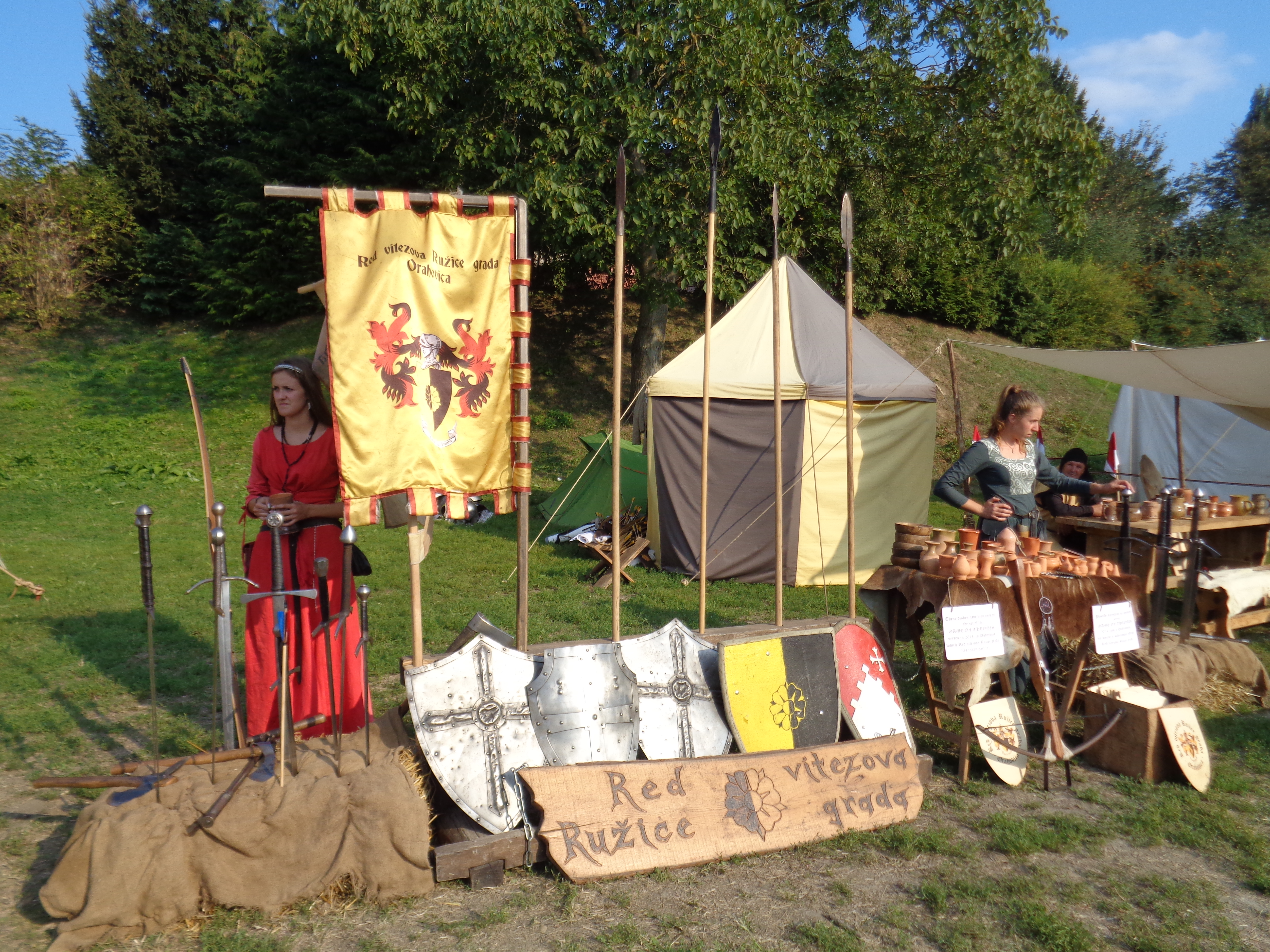 Order of the Knights of Ružica Castle (near Orahovica) at Koprivnica Renaissance Festival, Croatia (2016)